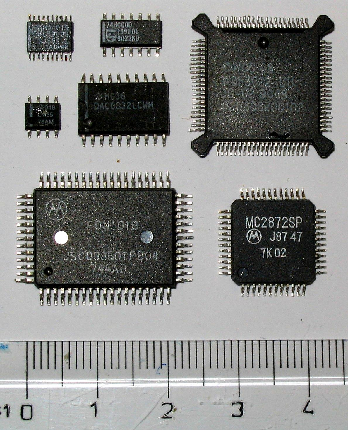 SMD chips in various packagings: logical element 74HC00D (second in the top row), Switching Regulator LM3578AM (left in the second row), Digital to Analog Converter DAC0832LCWM (in the middle of the second row), integral circuit WD53C22-UU 10-02 (top right), Motorola fdn101b jscq38501fb04 744ad (bottom left), Motorola MC2872sp (bottom right)